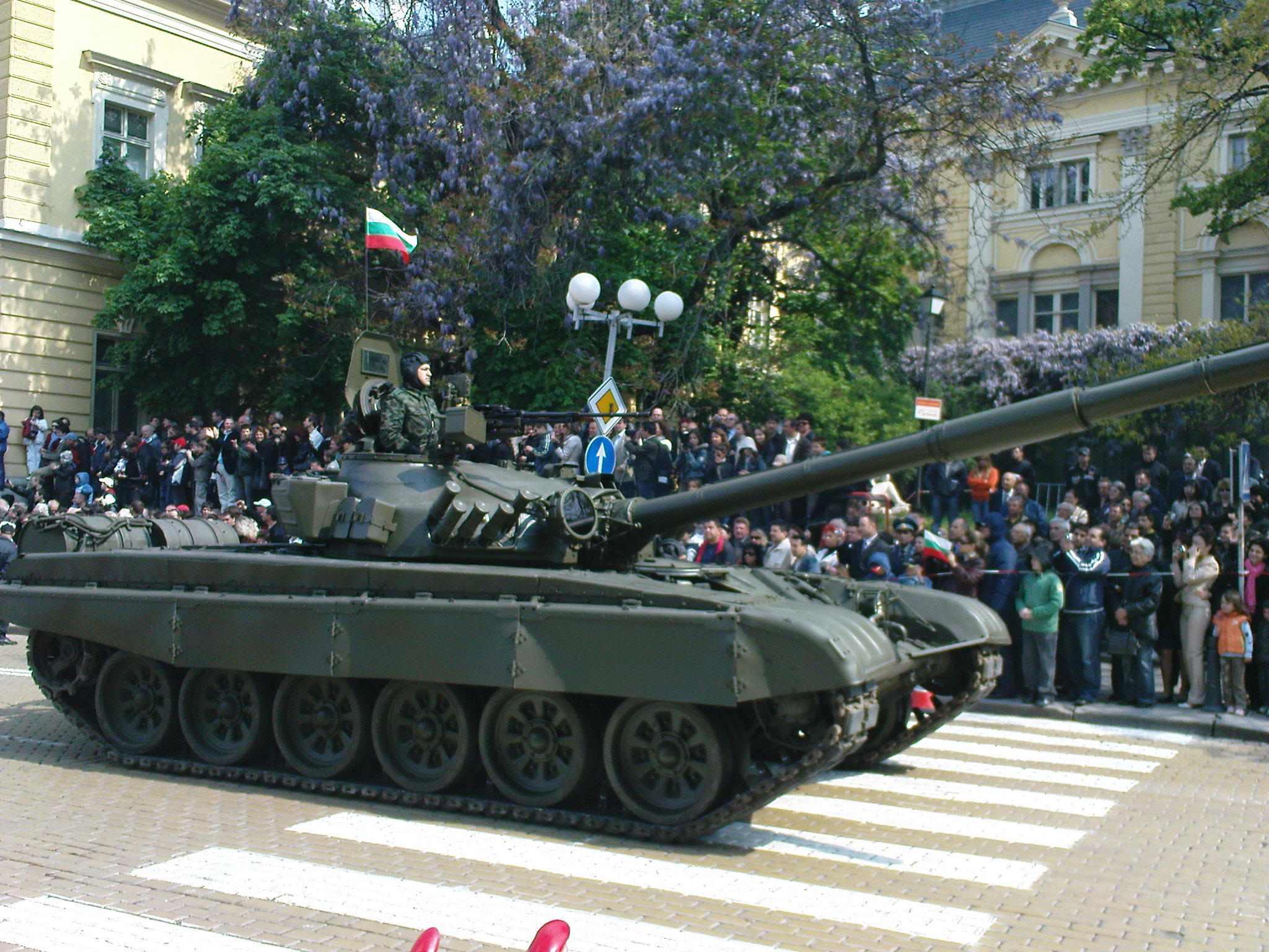 A T-72M2 tank on Army day parade in Sofia